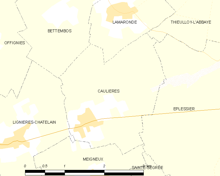 Map of French municipality Caulières